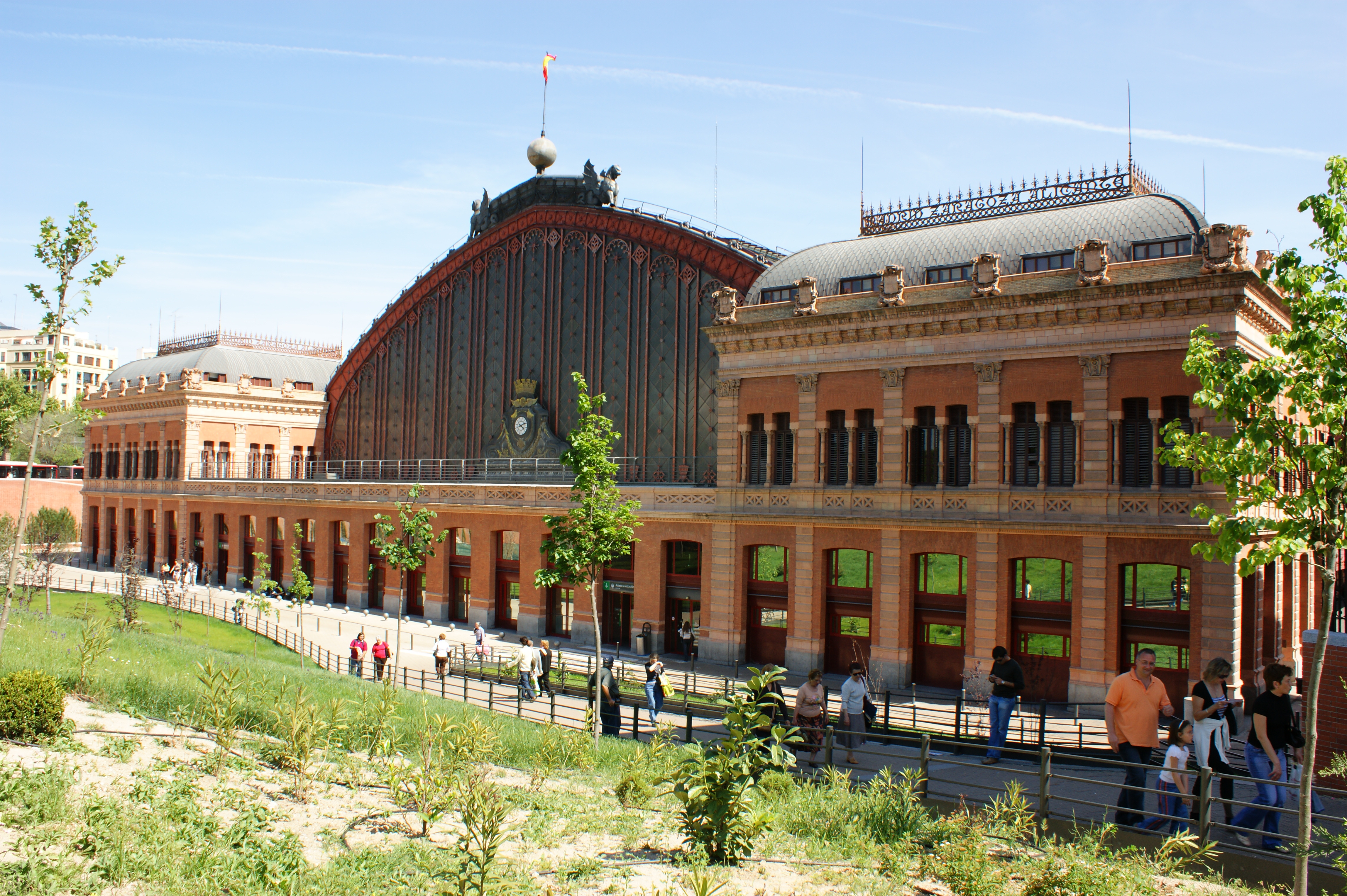 The facade of the original Madrid, Zaragossa and Alicante Railway Atocha Station, Madrid, 4/08.